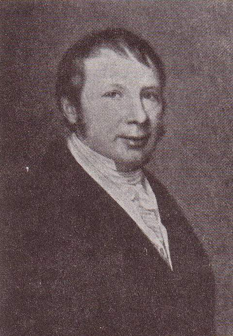 Gotthelf Engelhard (1785-1848)